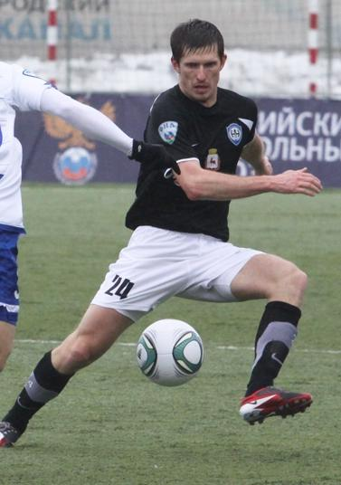 Vitali Kazantsev playing for FC Nizhny Novgorod.